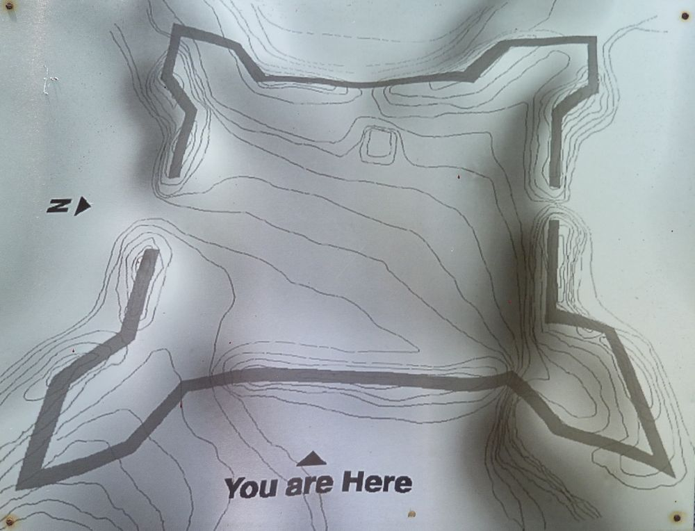 Fort Kaskaskia Outline Map